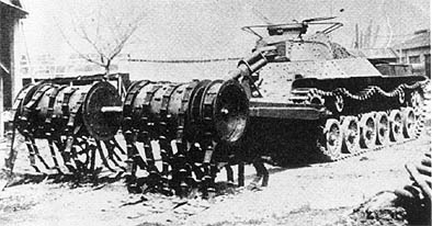 Front angle view of Type 97 Chi-Yu mine flail tank